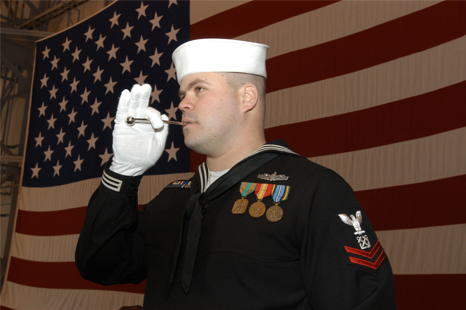 Misawa, Japan (May 16, 2003) -- Boatswain's Mate 2nd Class Henry S. Peek from Canyon Lake, Texas, pipes the official party aboard during a change of command ceremony for Patrol Squadron Nine (VP-9). The boatswain's pipe is a historical tradition still used throughout the fleet today. Different tunes mean different messages, which every Sailor understands. VP-9 is homeported at Marine Corps Air Station Kaneohe, Hawaii, and is currently on a routine deployment to Misawa, Japan.